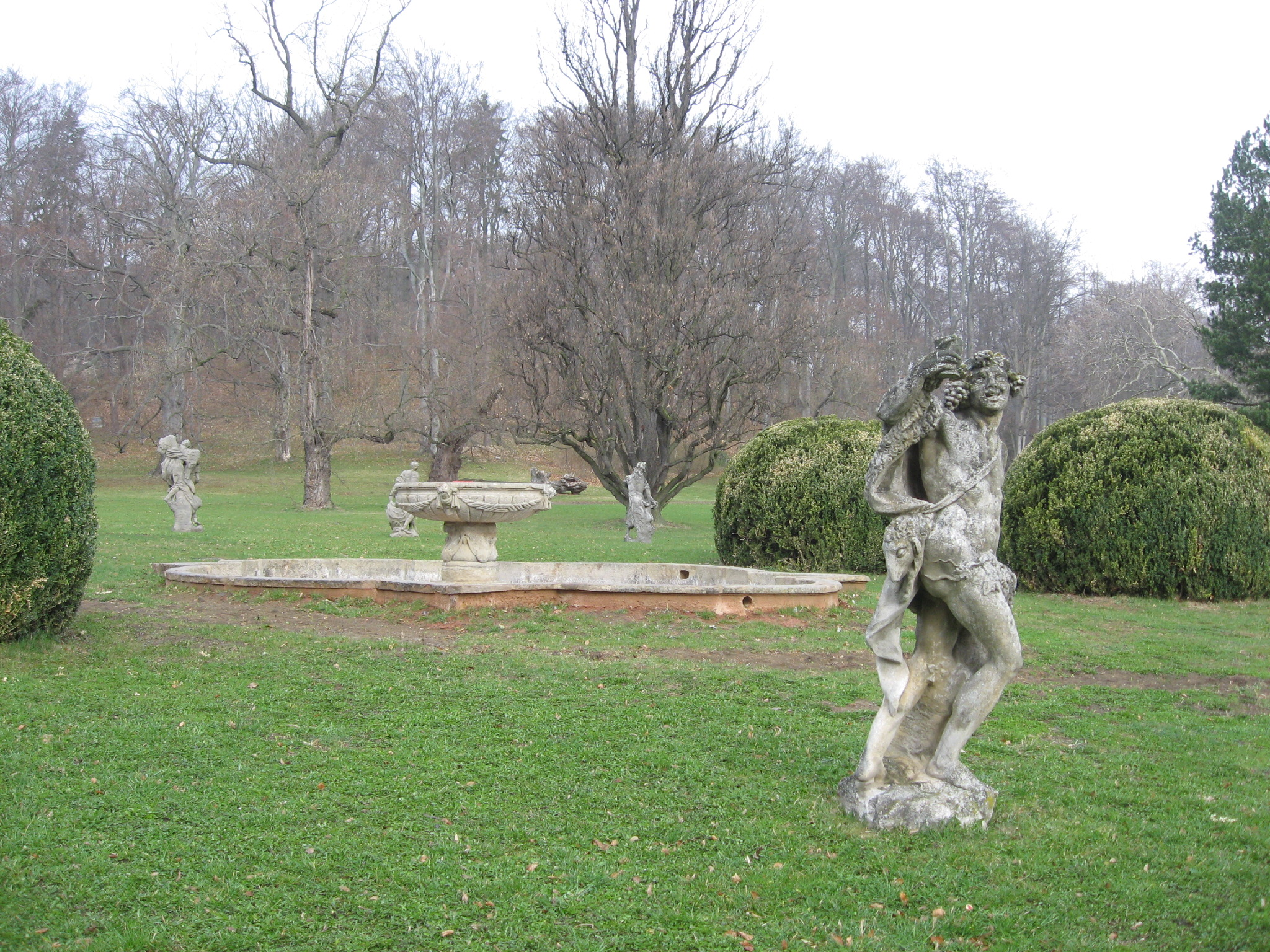 Copies of statues by Matyáš Bernard Braun in the garden of the chateau Valeč, (Karlovy Vary District, Czech Republic)